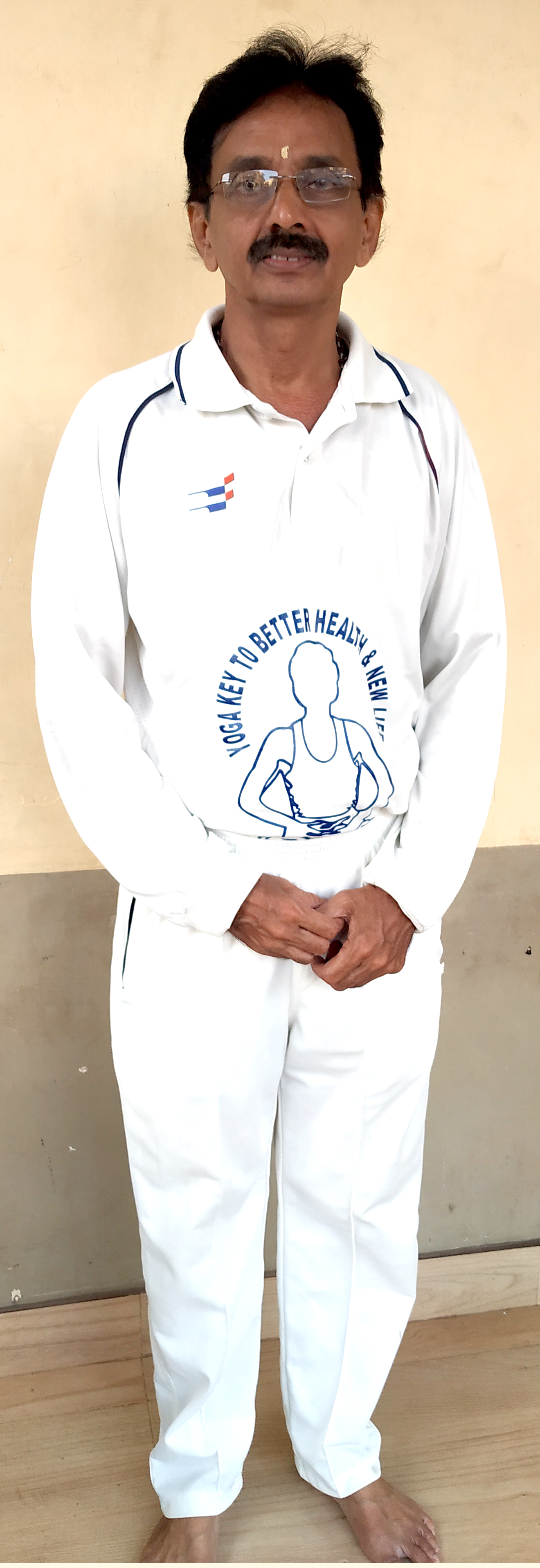 Gopalakrishna Delampady